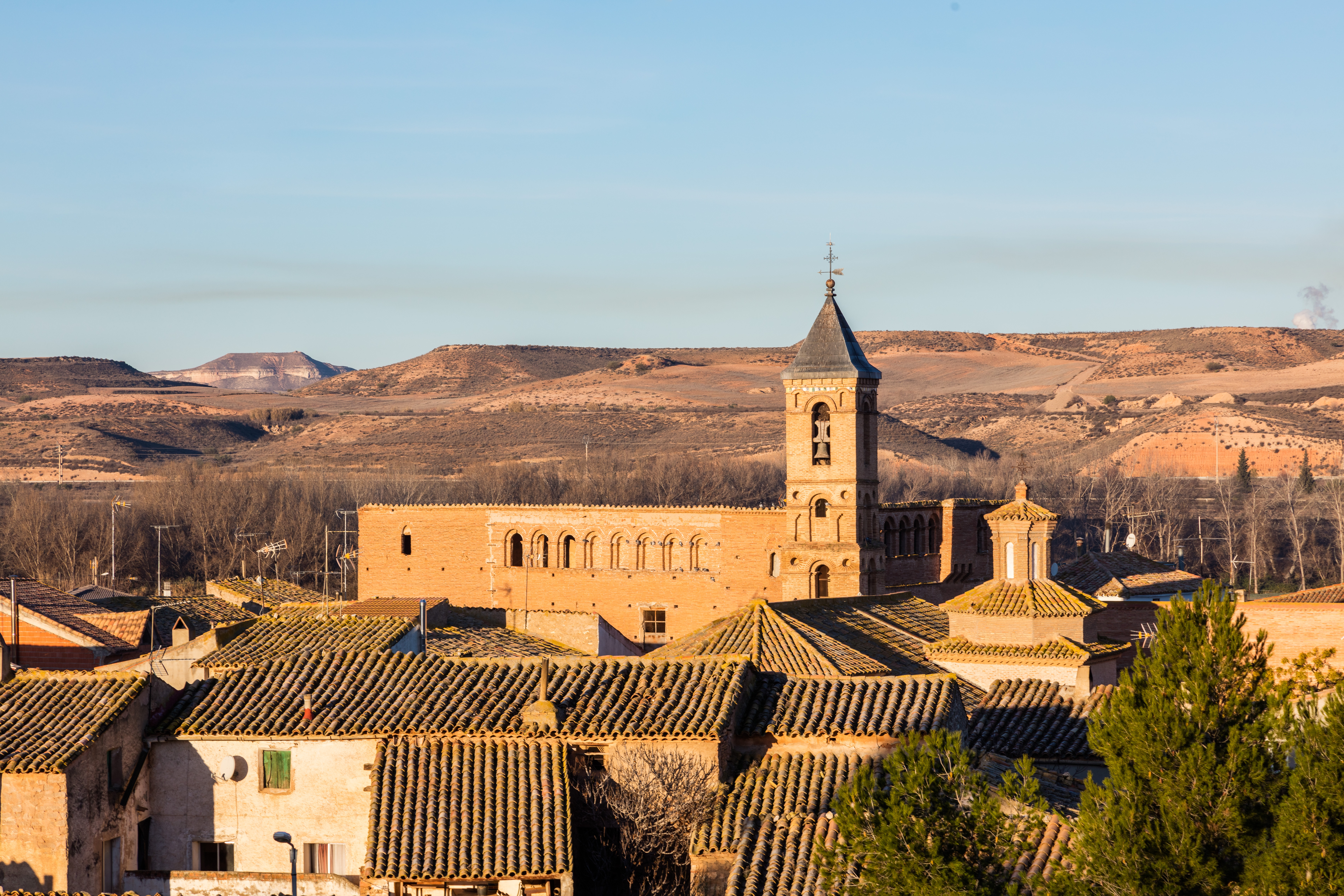 Mozota, Zaragoza, Spain